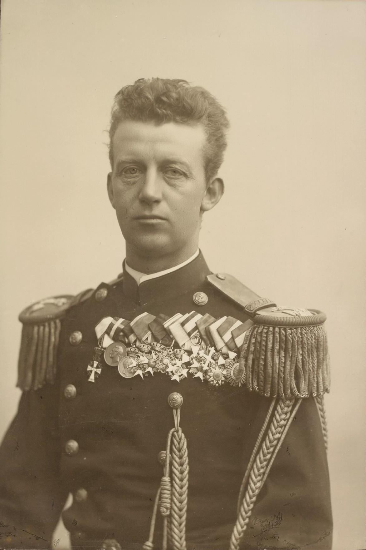 Andreas Peter Hovgaard (1853-1910), Danish naval officer and explorer